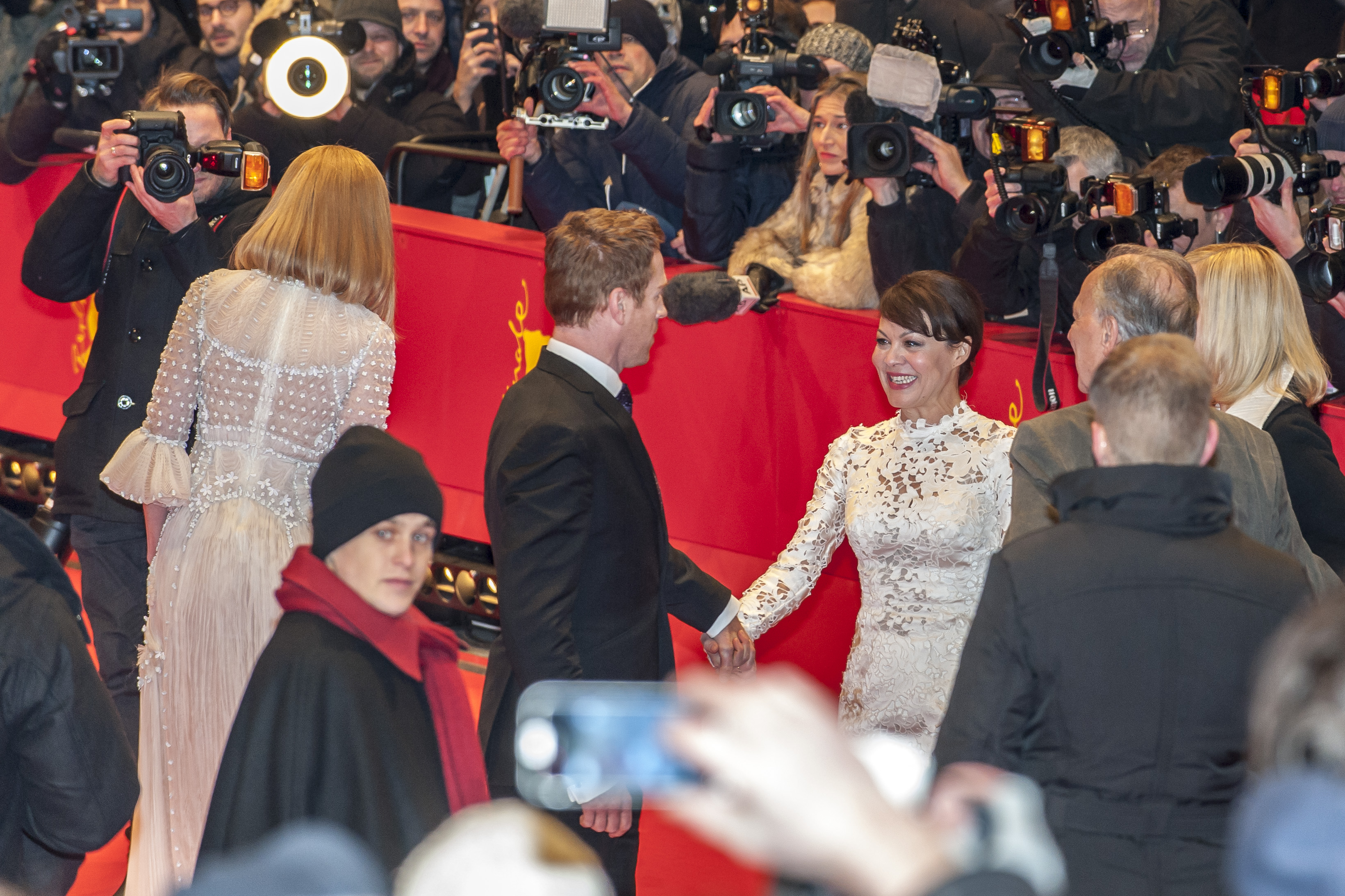 Nicole Kidman (from behind), Damian Lewis and his wife Helen McCrory Premiere of the movie "Queen Of The Desert"